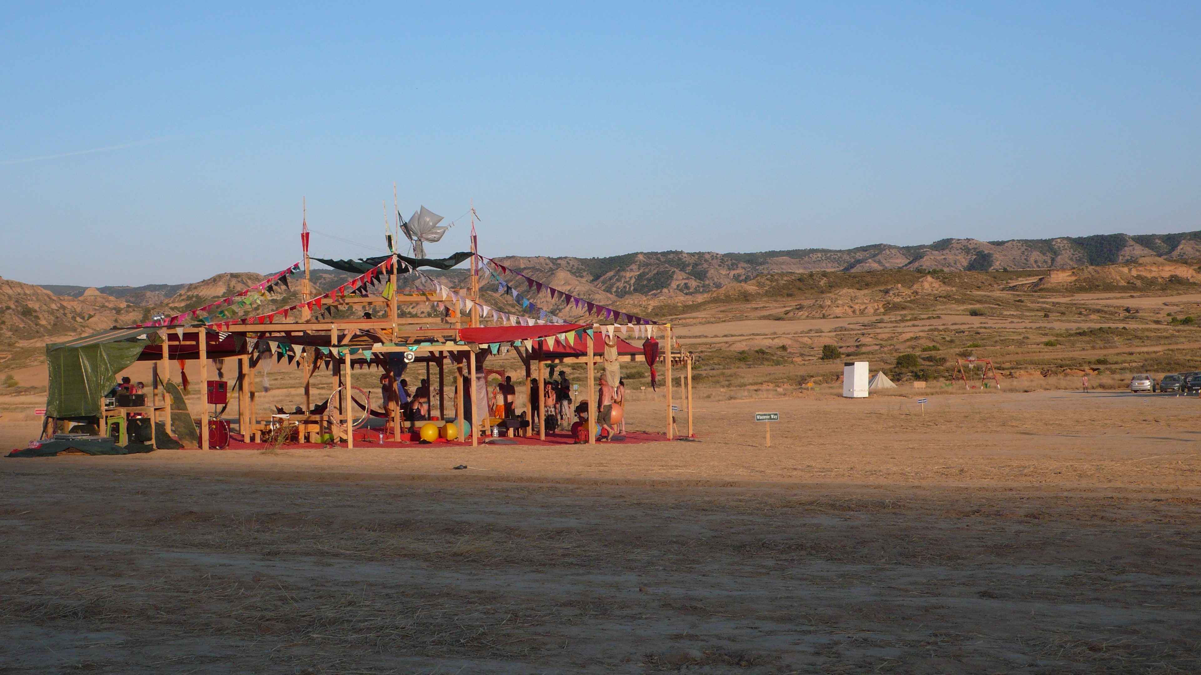 Euroburners Nowhere 09